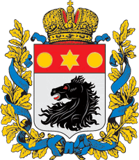 Coat of Arms of Kharkov Governorate, Russian Empire (1878-1887)